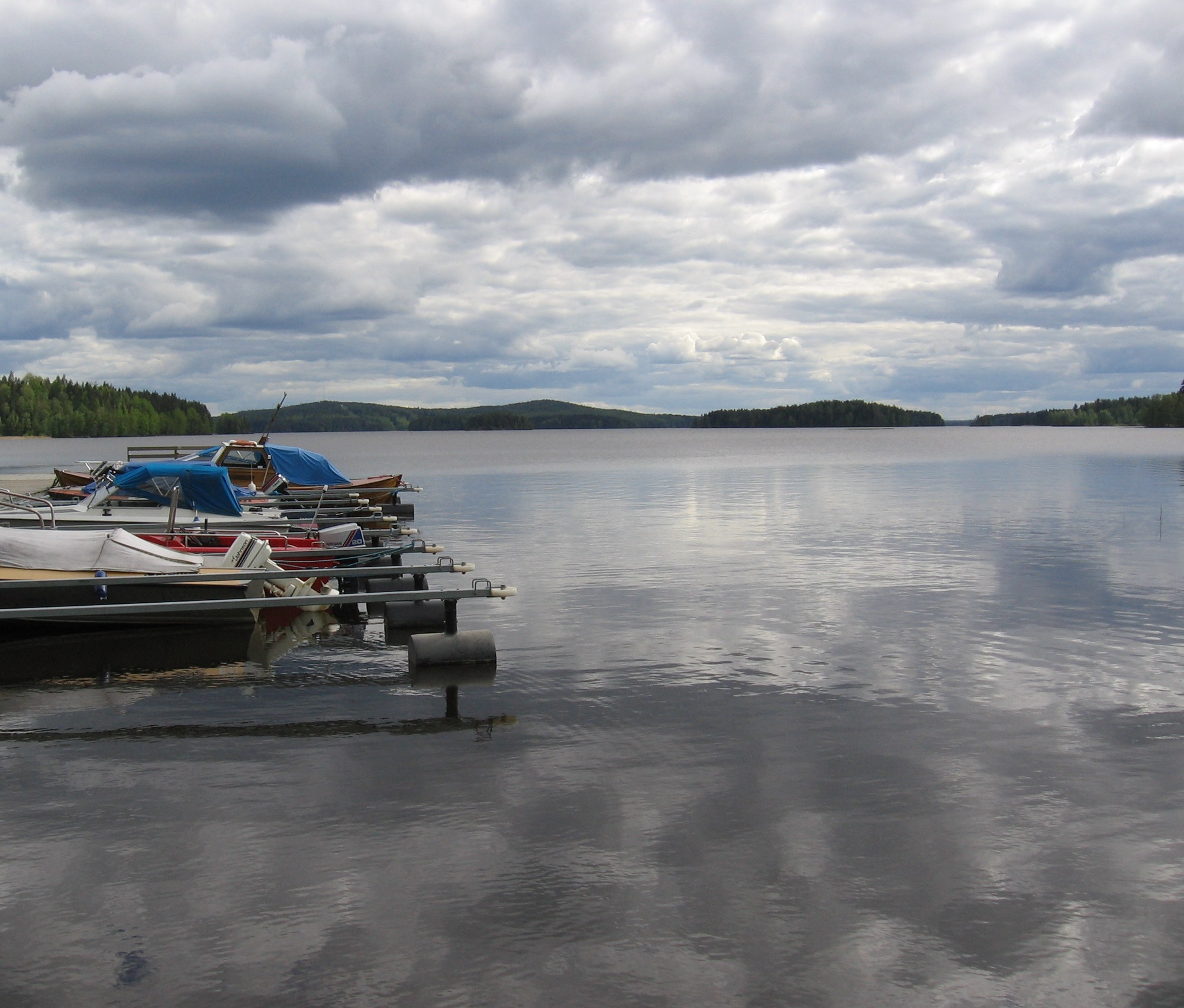 Lake Rautavesi in Vammala, Finland. View from Karkku.